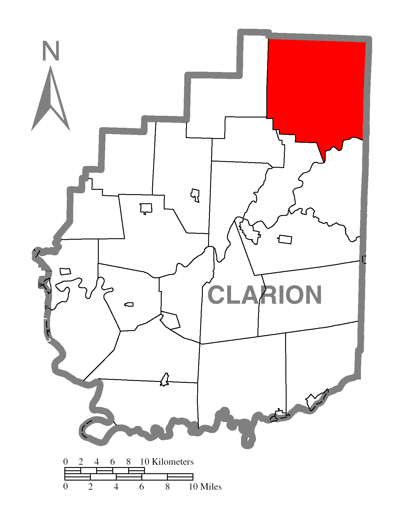 A map of Clarion County showing Farmington Township, Pennsylvania (alternate) highlighted on the map.